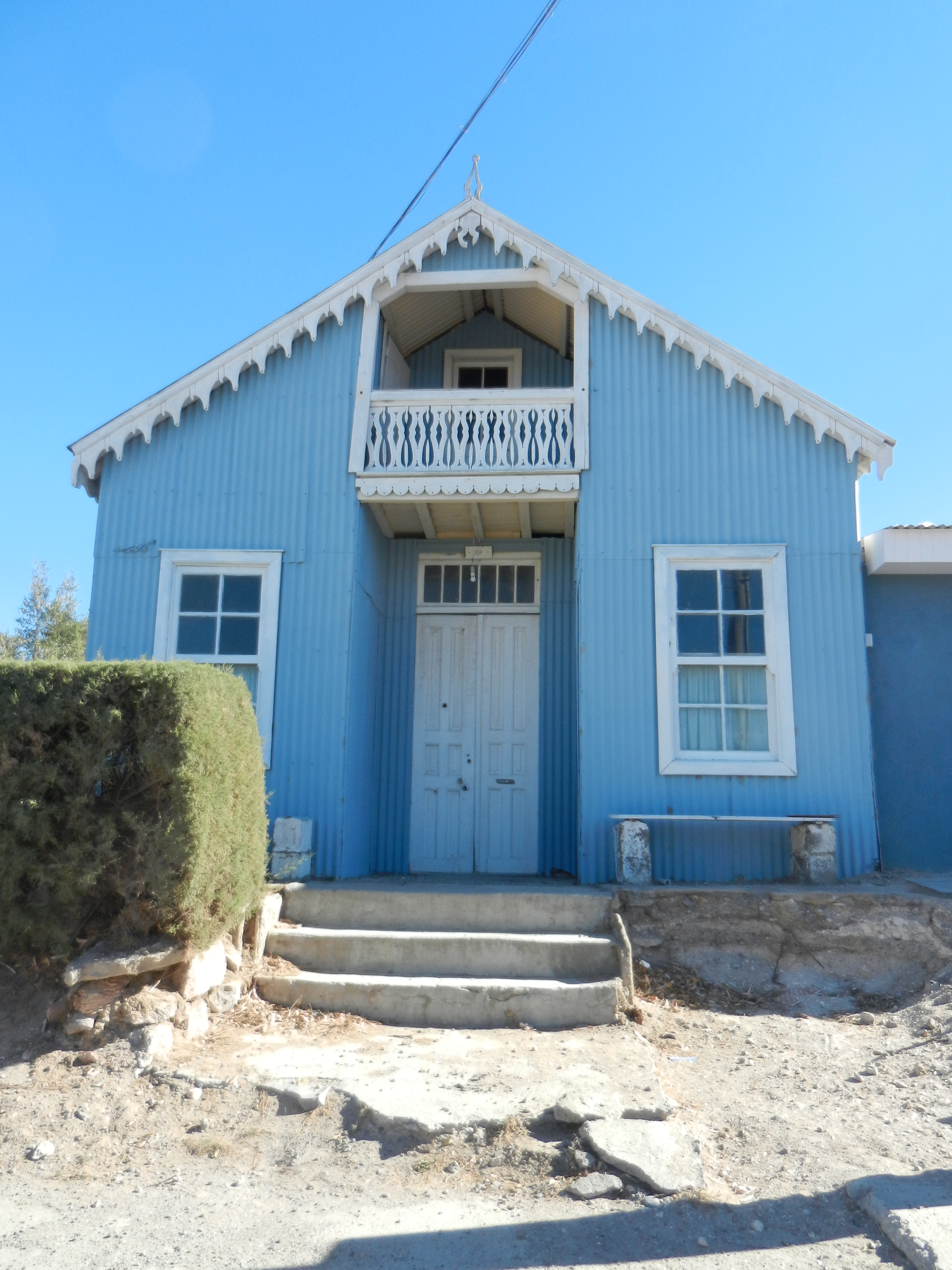 Camarones (Chubut): Declarado Poblado Histórico Nacional. La Comisión Nacional de Monumentos ha llegado a un acuerdo con el Municipio para la puesta en valor de las casas históricas con el aporte de materiales de construcción y asesoramiento profesional. Las obras comenzarán en el mes de octubre. La Comisión Nacional de Monumentos, en colaboración con Parques Nacionales y la Dirección Nacional de Arquitectura ha elaborado el proyecto de recuperación del Faro Leones, que fue presentado para su financiación.